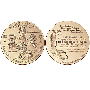 Text info from U.S. Mint: Authorized by Public Law 108-180, this medal commemorates Reverend Joseph A. DeLaine, Harry and Eliza Briggs and Levi Pearson for their contributions to the Nation as pioneers in the effort to desegregate public schools that led directly to the landmark desegregation case of Brown et al. v. the Board of Education of Topeka et al. The medal is a bronze replica of the Congressional Gold Medals awarded posthumously to Reverend Joseph A. DeLaine, Harry and Eliza Briggs and Levi Pearson and presented to personal representatives of each at a ceremony at the United States Capitol building on September 9, 2004. The obverse design features a portrait of Reverend Joseph A. DeLaine at the top center of the design, Harry Briggs in the right center, Eliza Briggs at the lower center and Levi Pearson in the left center of the design. Each name is inscribed next to the corresponding image. Centered along the top field are the inscriptions, “BRIGGS v. ELLIOTT” and “Our Trust Is In God”. Inscribed along the bottom are the words, “BROWN v. BOARD OF EDUCATION.” Two palm trees flank the images, one on the left and one on the right. The reverse design features four inscriptions that run from top to bottom: “Honoring the Pioneers and Petitioners from Clarendon County, South Carolina”, “They proved that segregation in education can never produce equality and that it is an evil that must be eradicated.” “Judge J. Waties Waring Dissenting Opinion”, “ACT OF CONGRESS 2003.” To the left of the inscriptions is a statue of Justitia, the Roman goddess of justice, portrayed with a pair of balanced scales raised in her left hand and a sword at her side in her right hand. In the forefront, four books are to be seen.